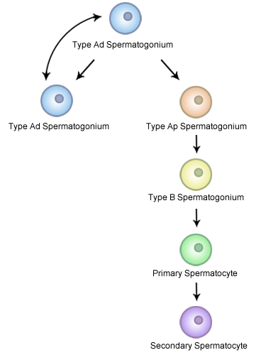 Diagram of the process of spermatocytogenesis. Strictly schematic.